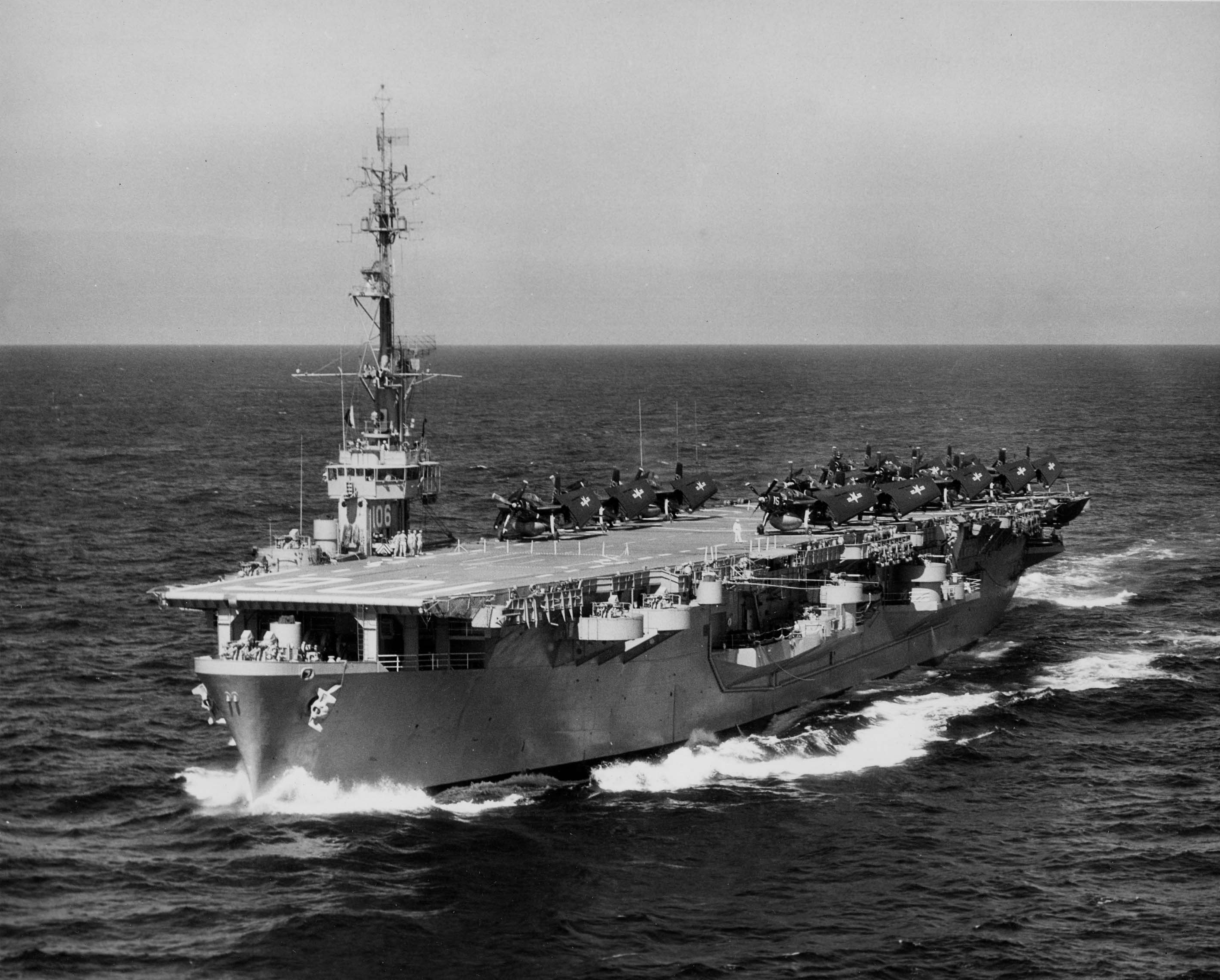 The U.S. Navy escort carrier USS Block Island (CVE-106) underway in the summer of 1953.